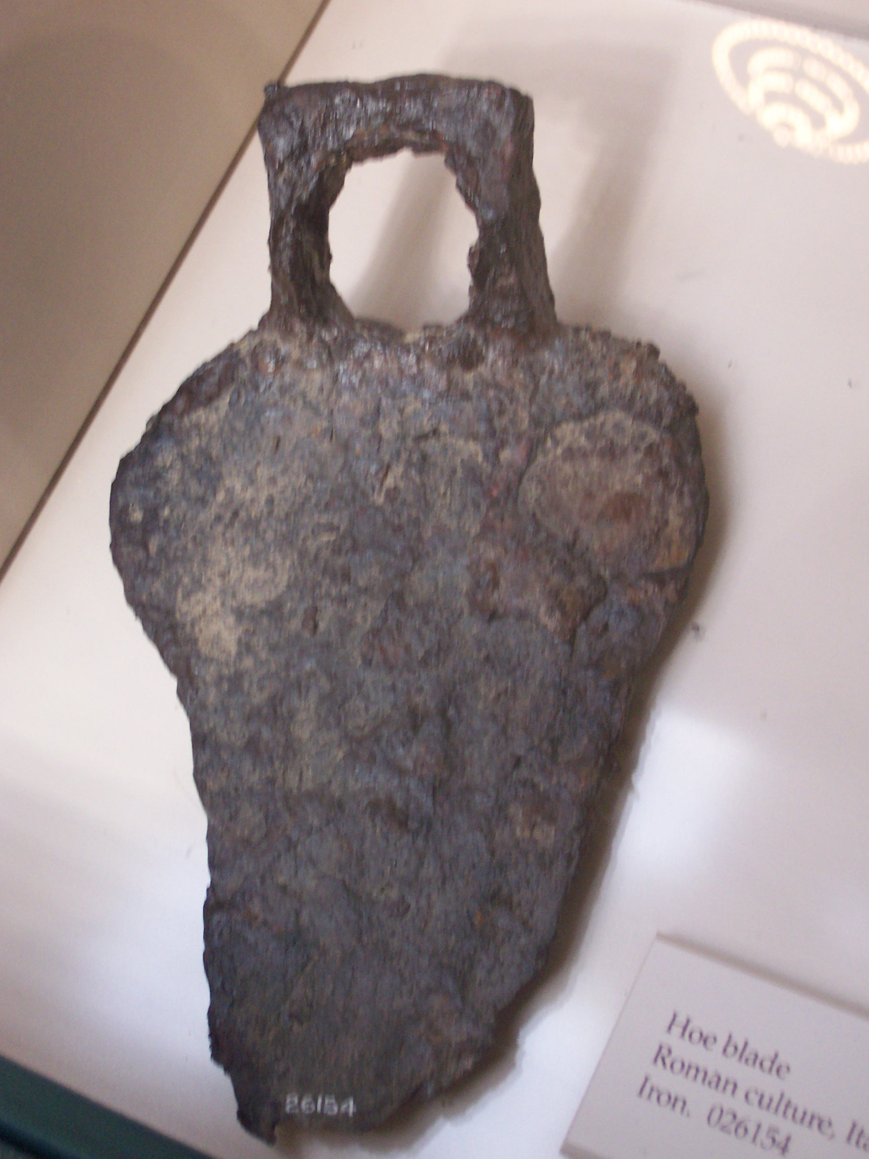 Roman hoe blade, iron, 2000 years old. Artifact can be seen at the Field Museum, Chicago